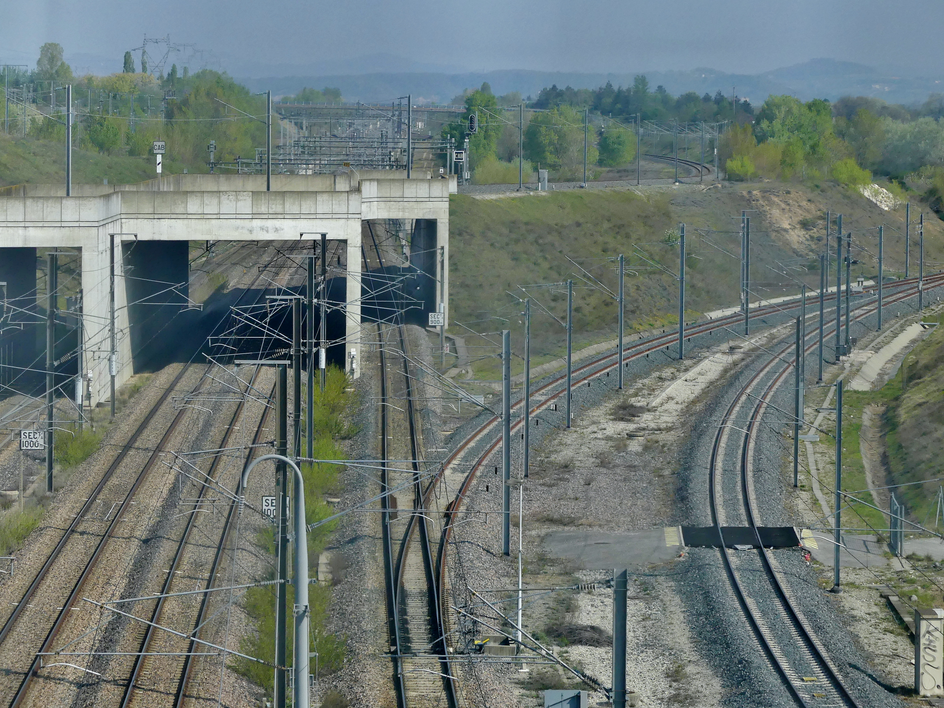 Sight, from Valence-TGV railway station, of the junction between Valence-Moirans railway classic line and LGV Rhône-Alpes high speed line, in Drôme, France.